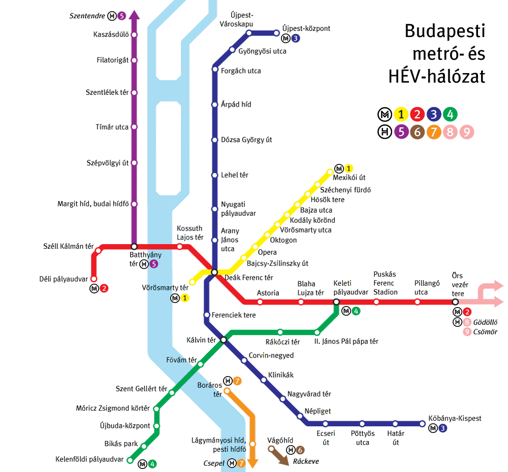 Metro & suburban railway network of Budapest as of March 28, 2014.